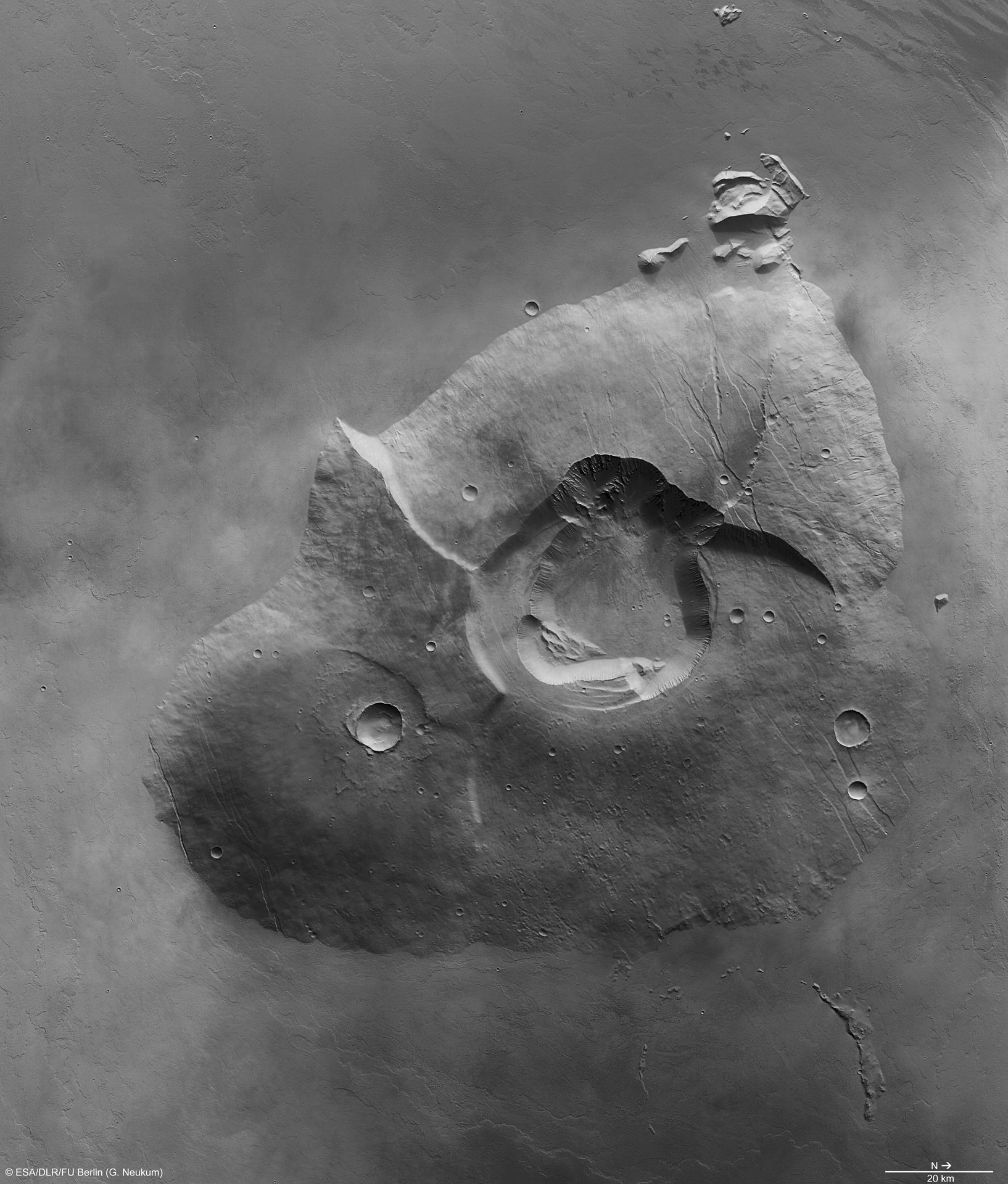 The volcano Tharsis Tholus on Mars imaged by the HRSC instrument aboard Mars Express.